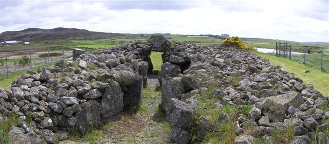 Creggandevesky Court Grave. Located beside Mallon Lough and translated means "Rock of the Black Water"